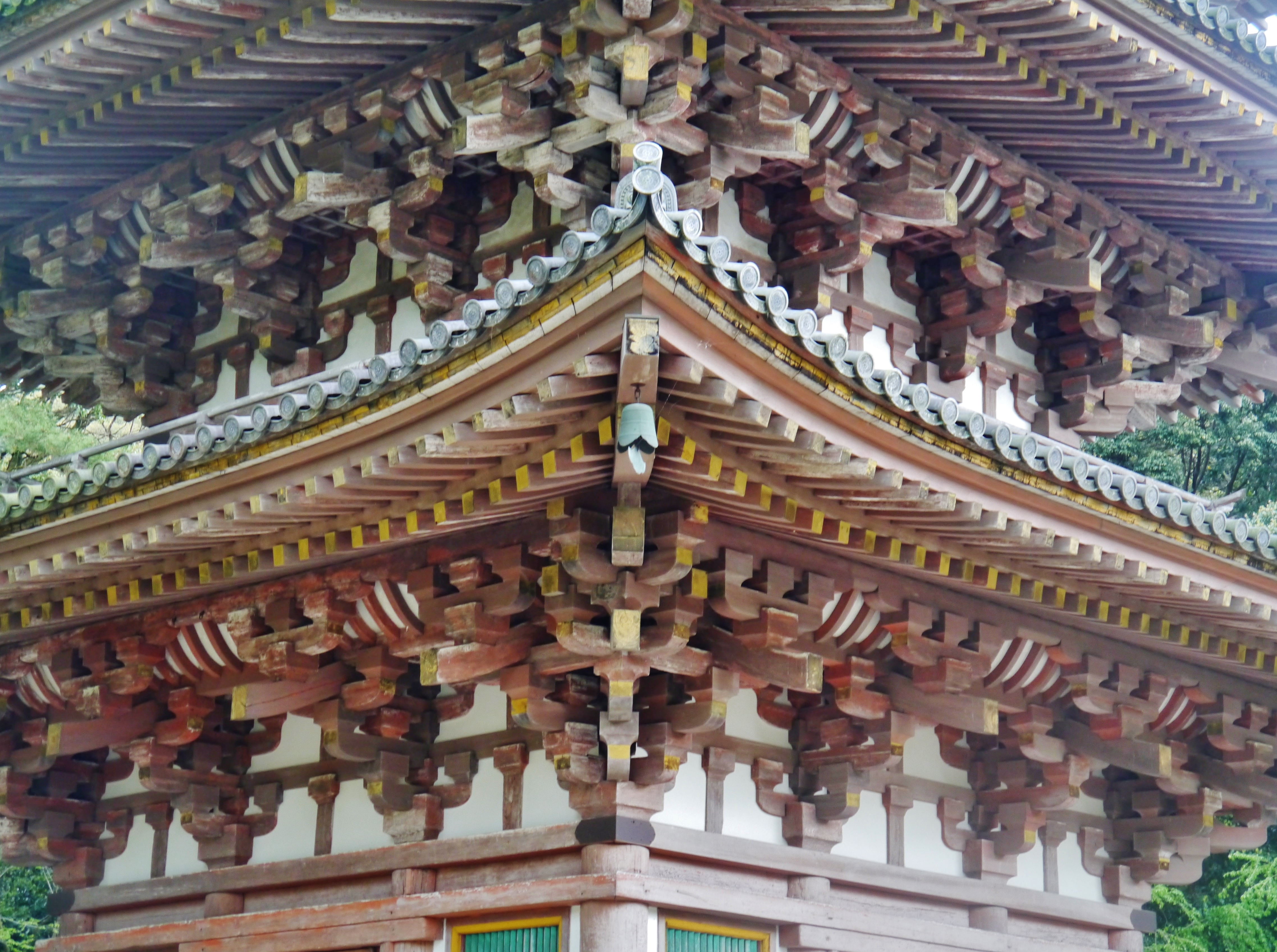 Pagoda of the upper Daigo Temple, Kyoto, Kyoto Prefecture, Kinki Region, Japan Panasonic Lumix DMC-G3